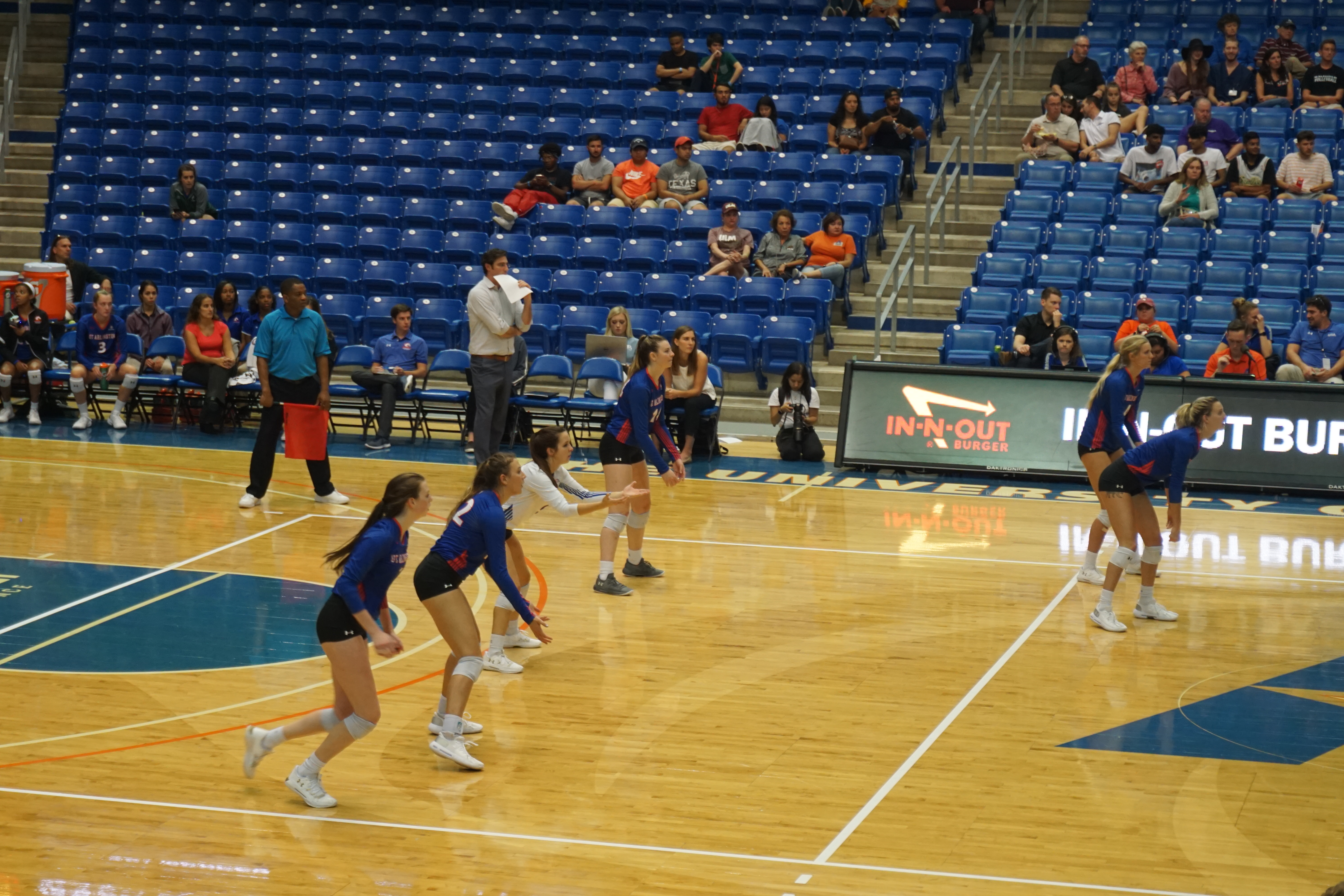 In-match action during the Louisiana–Monroe Warhawks vs. UT Arlington Mavericks women's volleyball match at College Park Center in Arlington, Texas (United States). UT Arlington won 3–1 (27–29, 25–20, 25–15, 25–14).